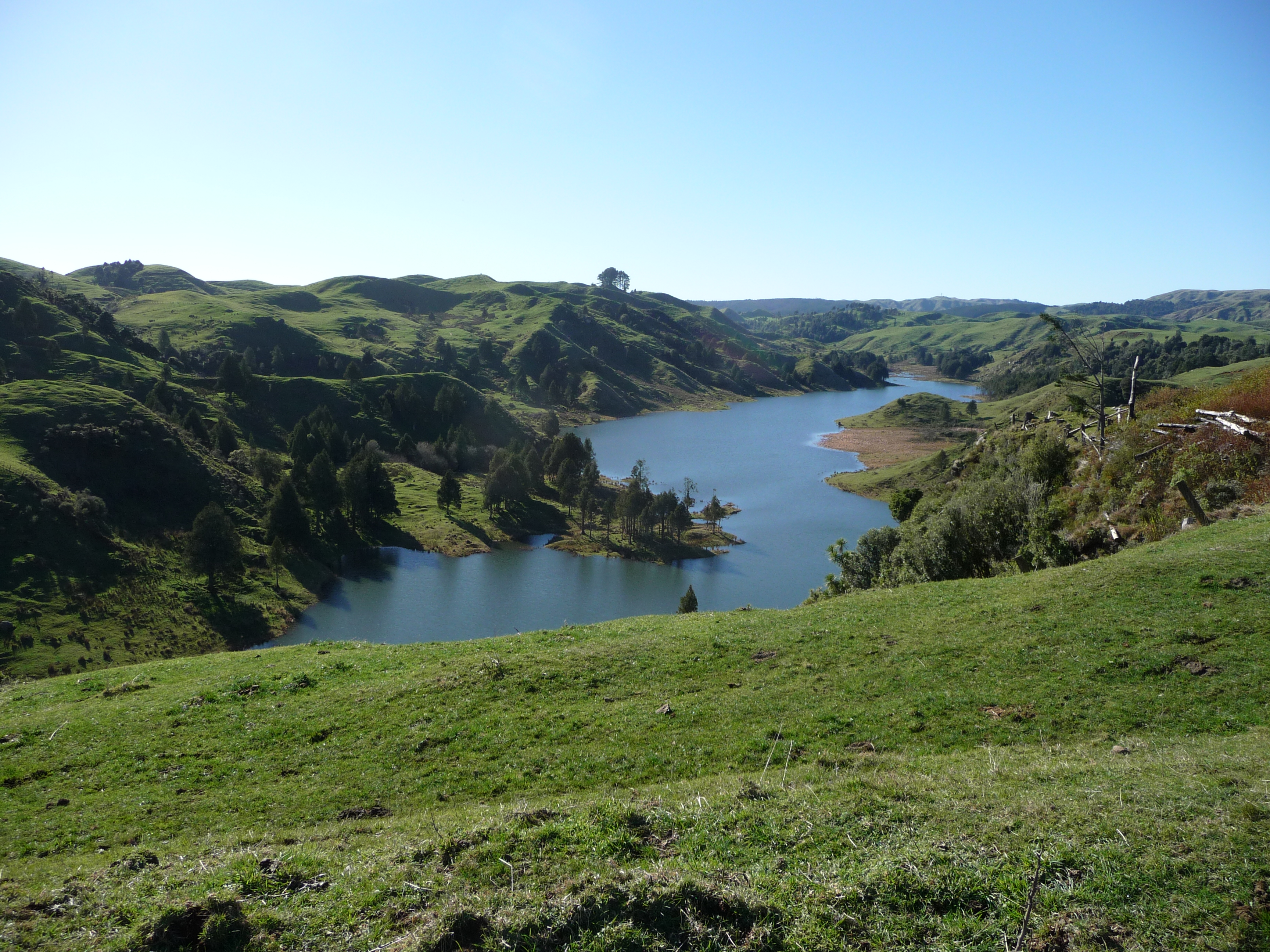 dammed by lava flow of Okete Volcanics (which also formed nearby Bridal Veil waterfall) and drained through limestone sinkhole (see also Turlough (lake) and Polje)